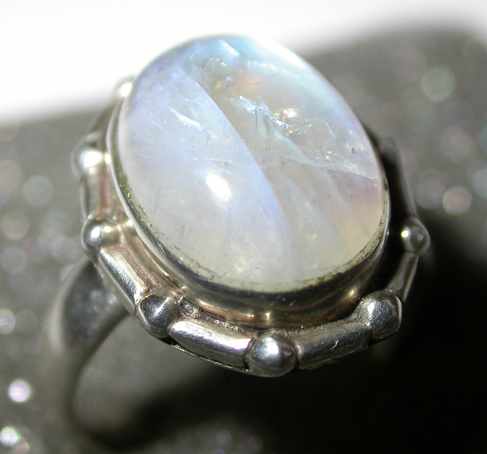 orthoclase-variety moonstone, Cabochon-cut as fingerring